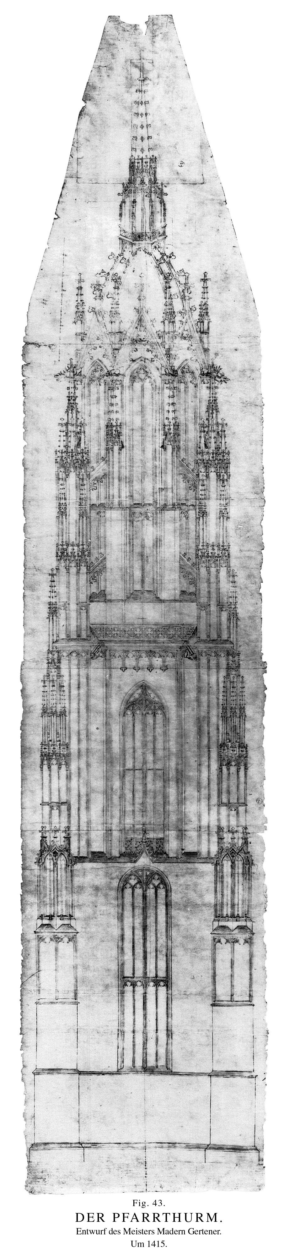 Frankfurt on the Main: Concept for the tower of Saint Bartholomeus's Cathedral by Madern Gerthener (scan of a heliography)